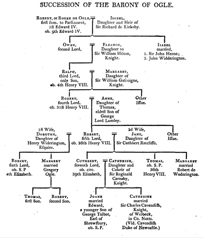 Pedigree chart